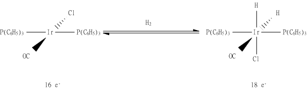 oxidative addition of Vaska Complex